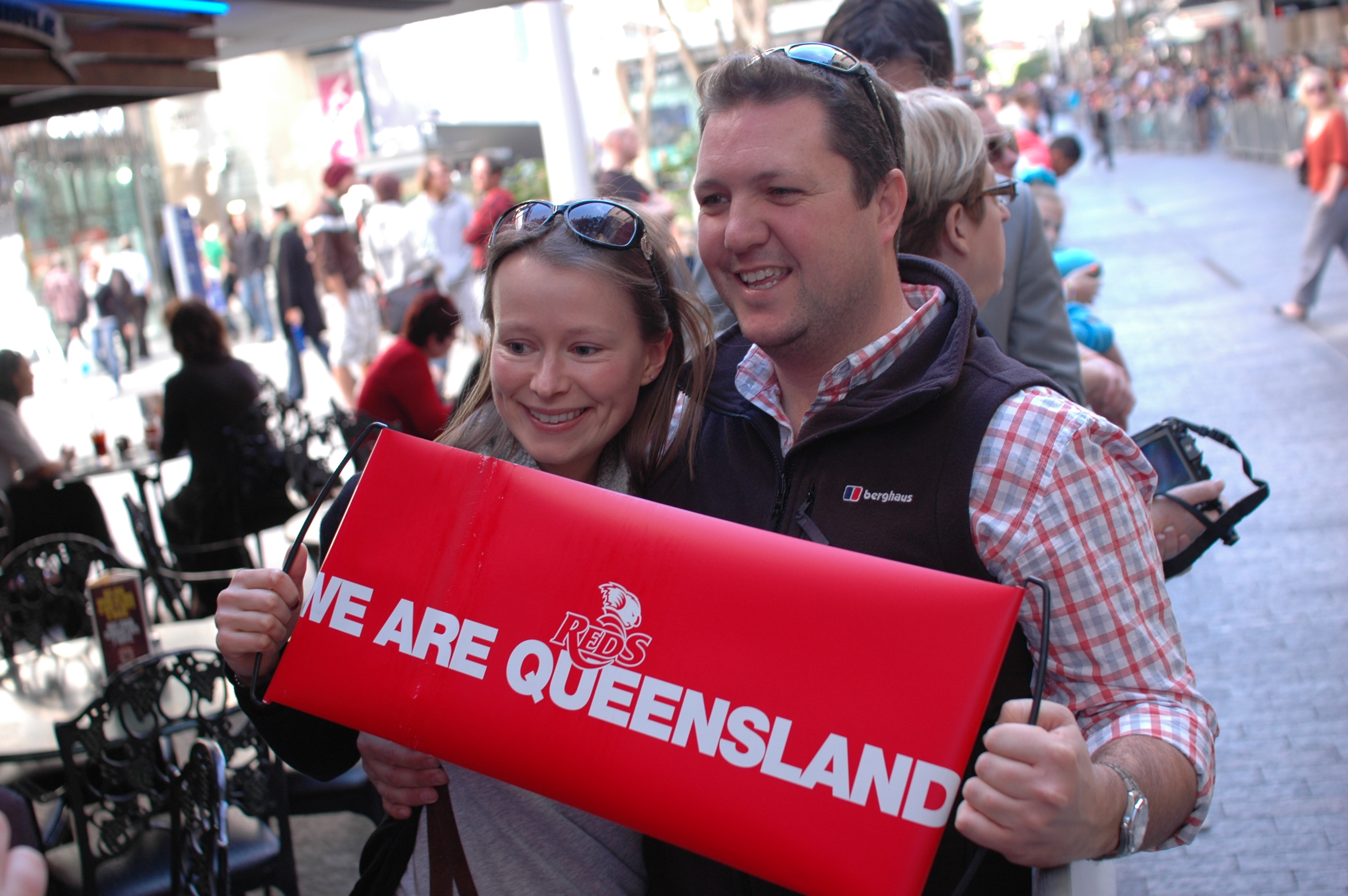 Queensland Reds rugby fans at ticker tape parade in Brisbane's Queens Street Mall celebtrate their title win in Super Rugby 2011.